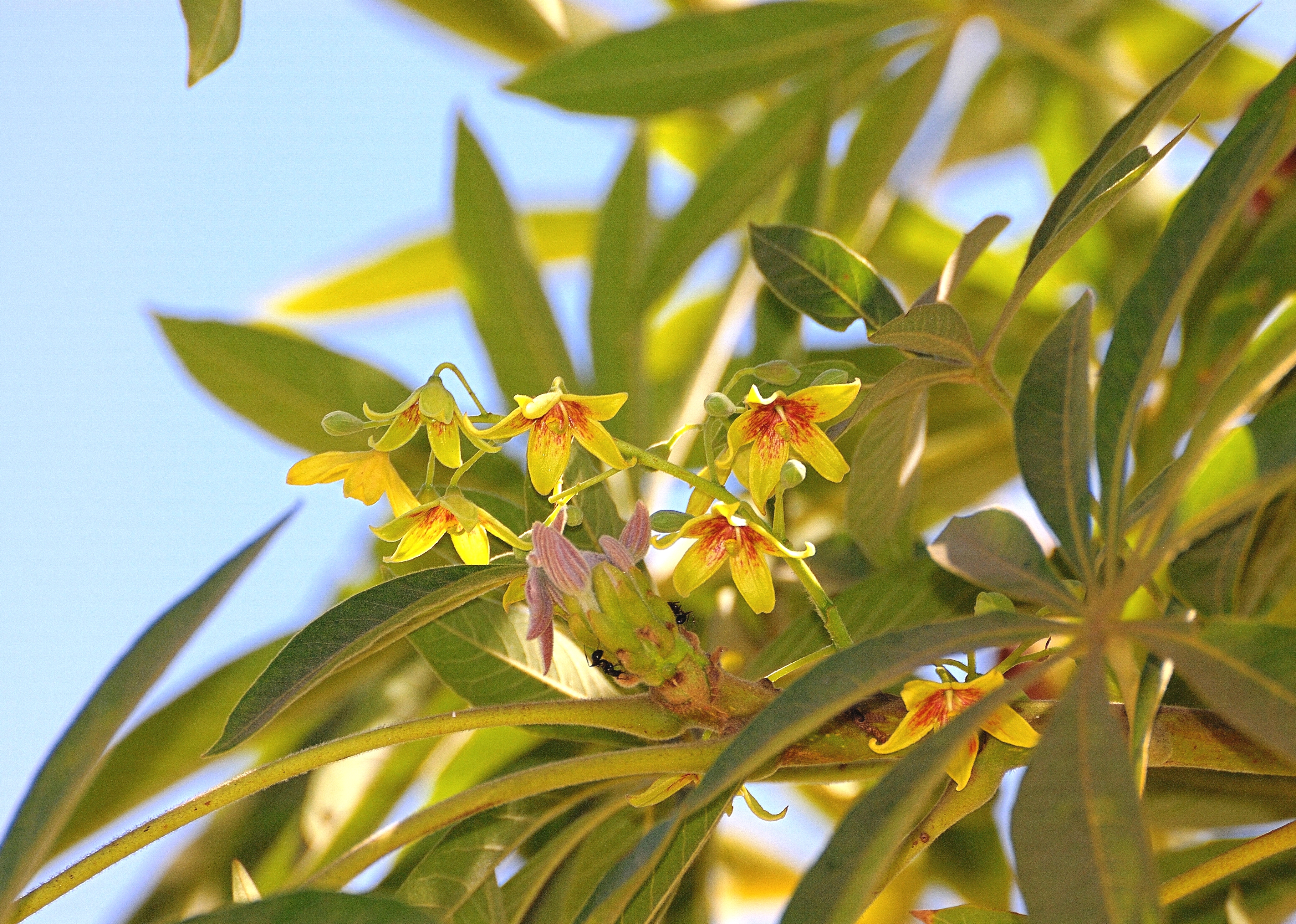 Inflorescence of a Lowveld chestnut, Jan Celliers Park, Pretoria. The species is endemic to Mpumalanga and adjacent Swaziland.